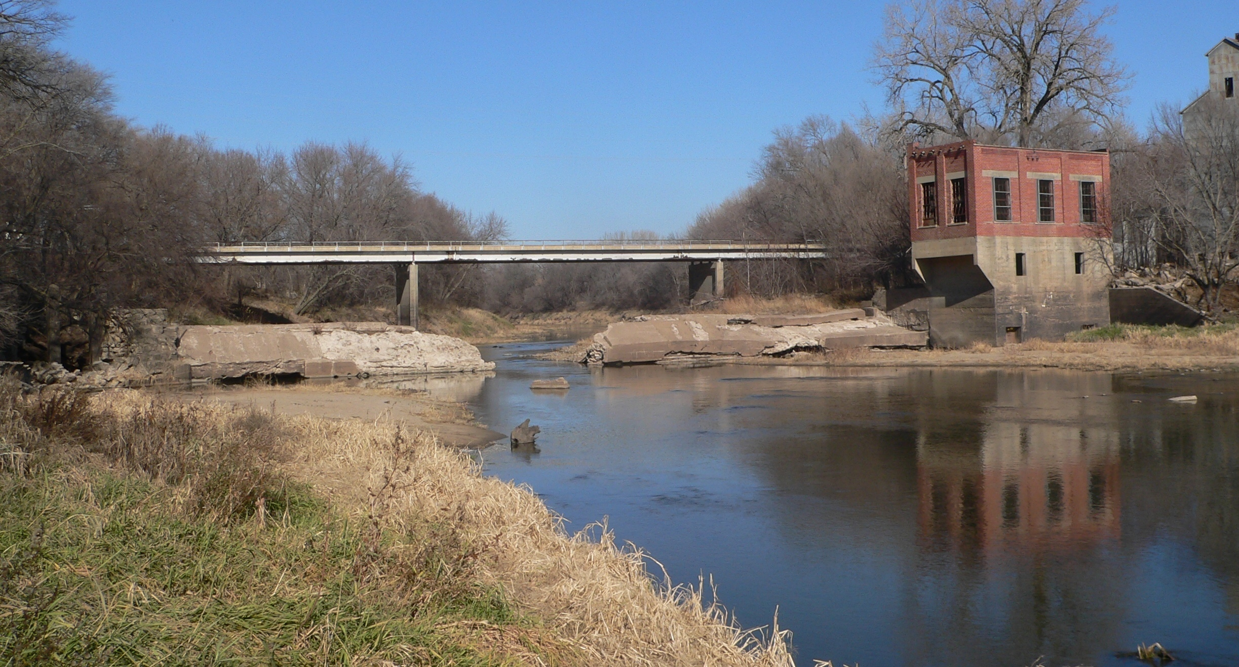 Remains of dam and hydroelectric plant on Big Blue River at eastern edge of Blue Springs, Nebraska. Camera is facing generally northward (upstream).